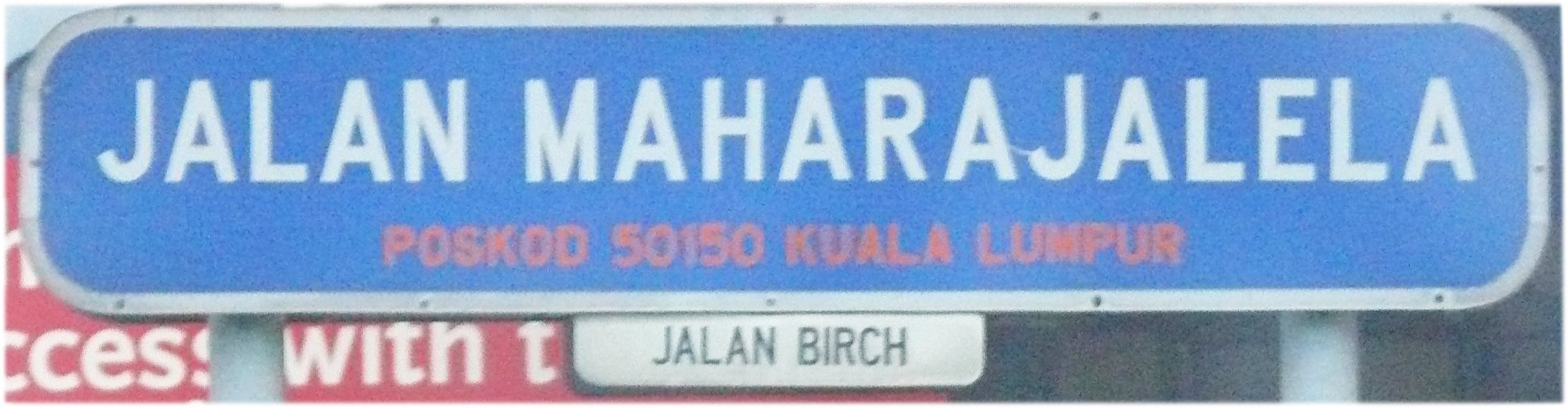 self-made